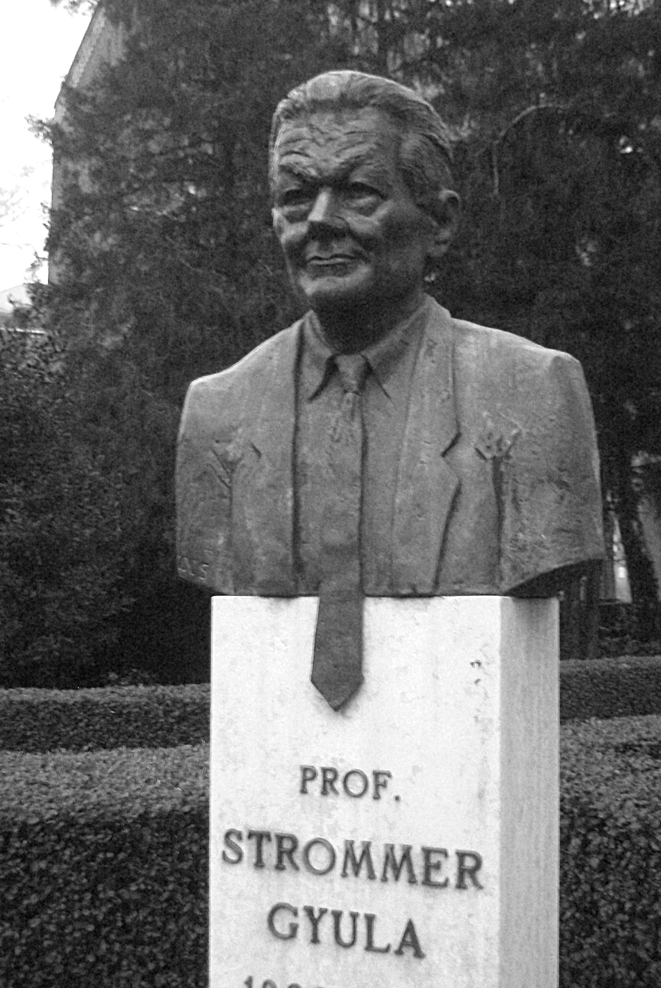 Bust of Professor Dr. Gyula Strommer (1920-1995), mathematician and geometry expert at Budapest Technical_University (Building H)